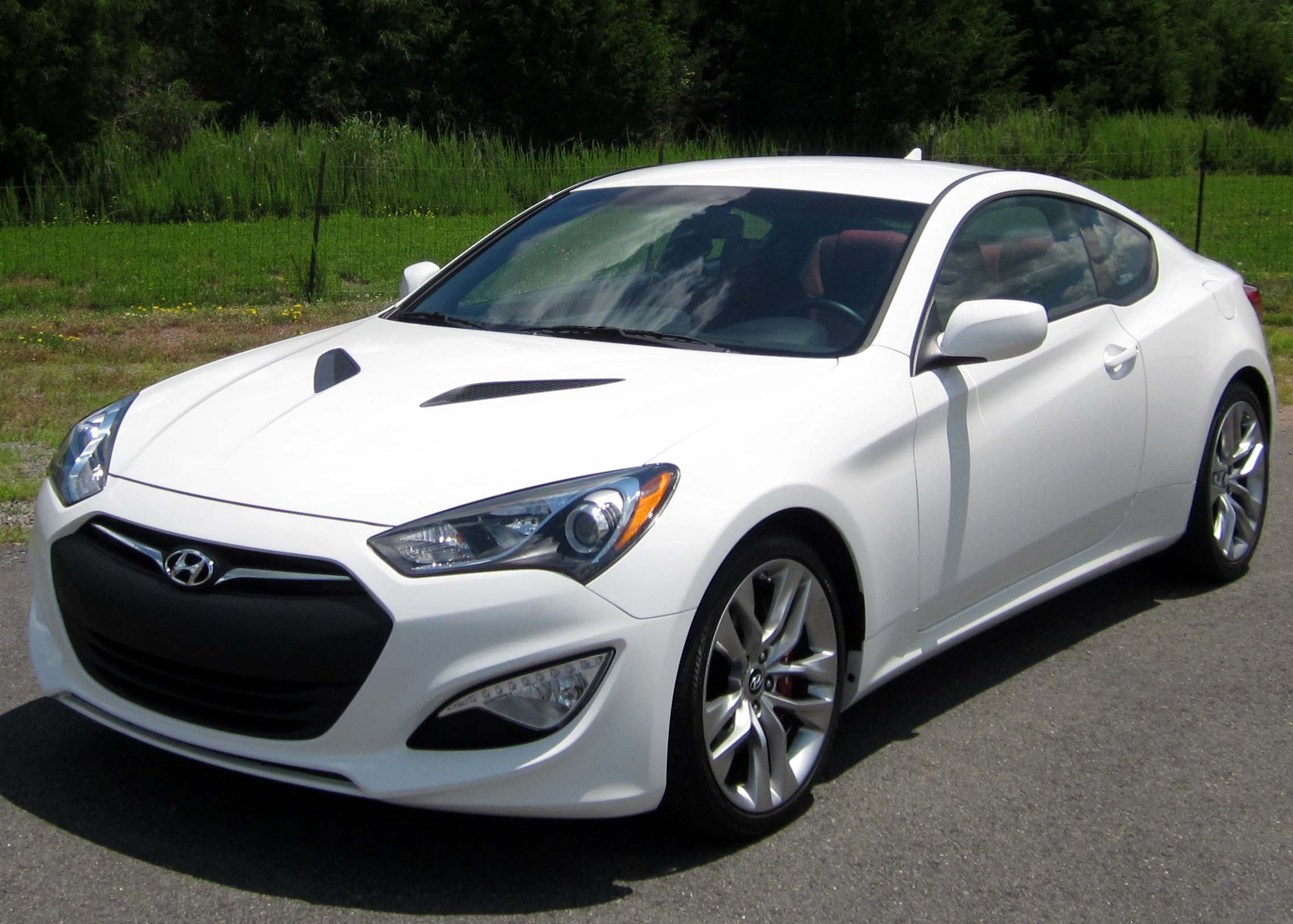 2013 Hyundai Genesis Coupe photographed in Centreville, Virginia, USA.